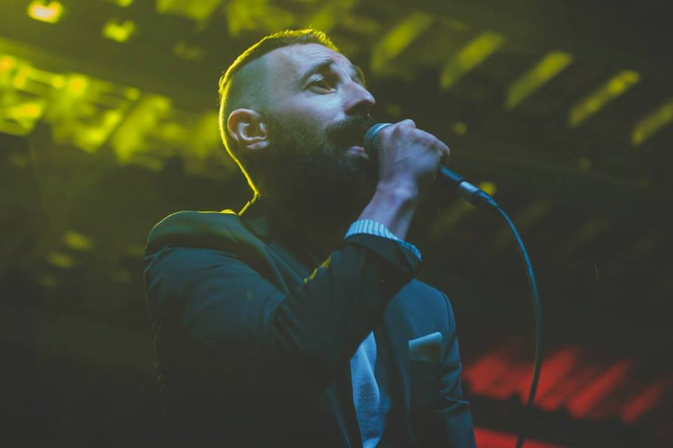 The music artist Edipo (Fausto Zanardelli) singing at the music festival Bisbboccia Fest in Carnago (VA) on June the 12th in 2015.